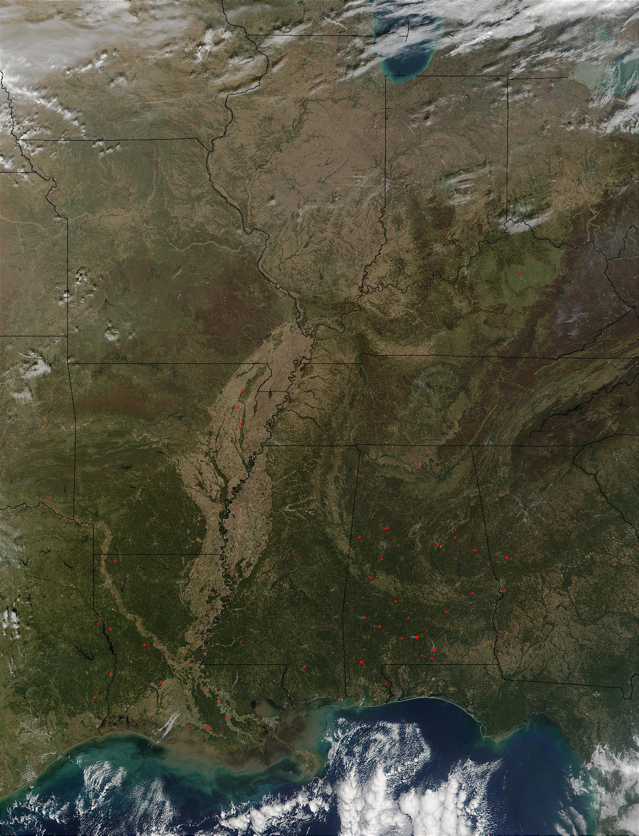 Image of the Mississippi River delta from the Terra satellite MODIS instrument.